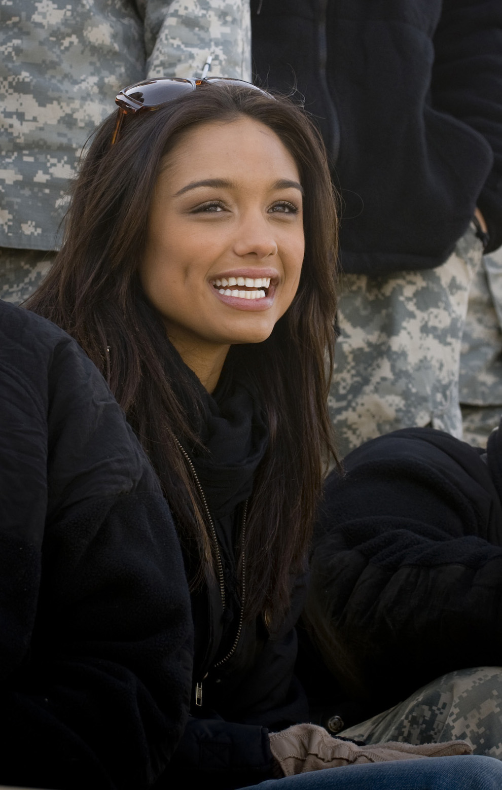 Surrounded by soldiers atop an MRAP vehicle, Miss USA Rachel Smith watches the 2007 USO Holiday Tour stop at Logistics Support Area Anaconda, Balad, Iraq